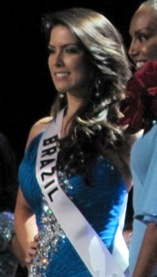 Miss Universe 2009 rehearses for the 2010 pageant and prepares to give up her crown